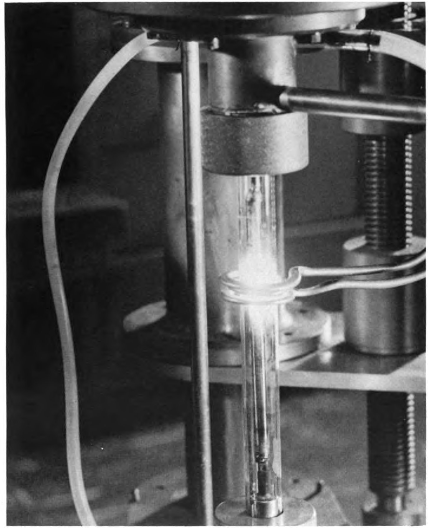 Zone refining of a bar of rare earth metal at University of Michigan in 1961. Zone refining, invented in 1953 by William Pfann at Bell Laboratories, is a technique for removing impurities from crystals, widely used in the semiconductor industry. In the picture a narrow bar of metal runs down the center of the glass tube. The coil of copper wire around the tube is attached to an electronic oscillator generating a radio frequency alternating current through the wire. This heats the bar by induction heating, melting a short length of the bar. The coil is moved slowly down the tube by the lead screw (right), so the molten zone moves down the bar. The impurities in the bar stay in the molten section and are moved to the end of the bar, which is cut off.